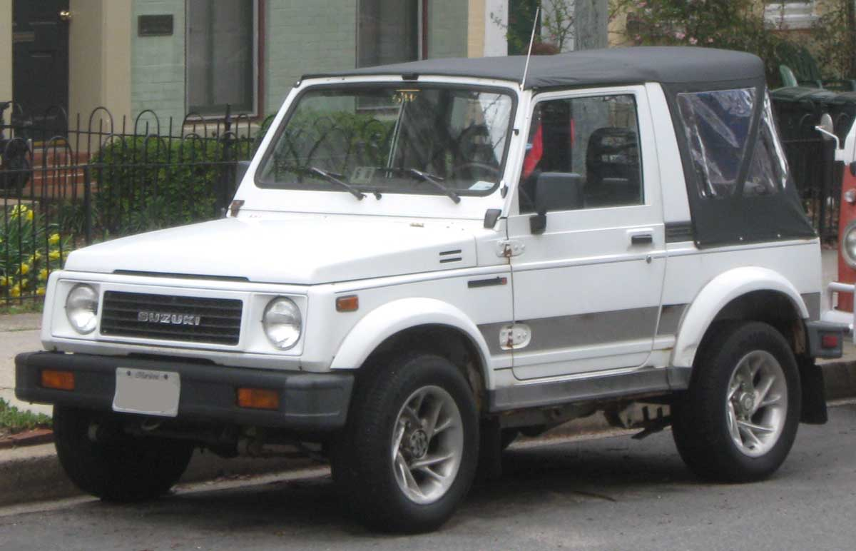 Suzuki Samurai photographed in Washington, D.C., USA.